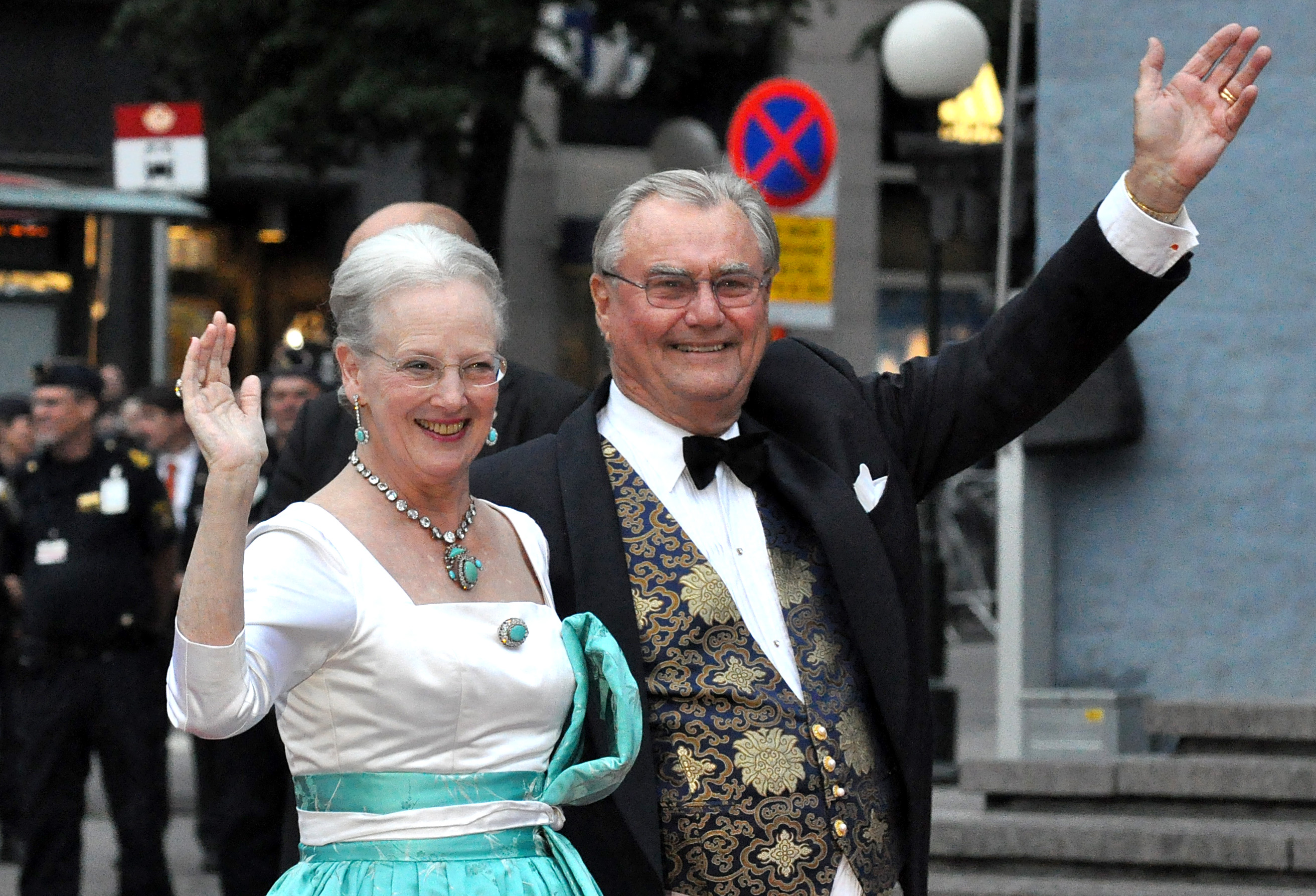 Wedding of Victoria, Crown Princess of Sweden, and Daniel Westling; Arrival of members for the Gouvernment and Swedish and foreign guests of hounour to the Riksdag's Gala Performance at Konserthuset